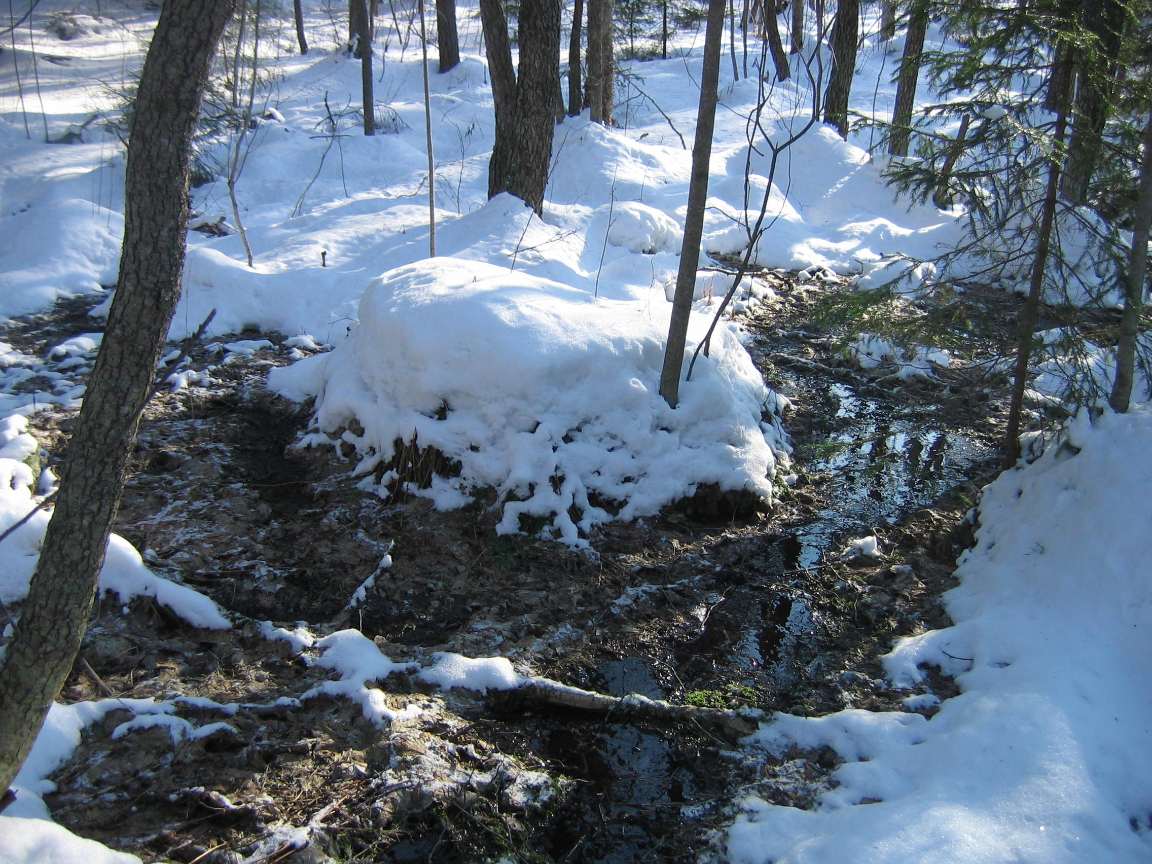 A small spring in Parikkala, Finland, photographed in late March